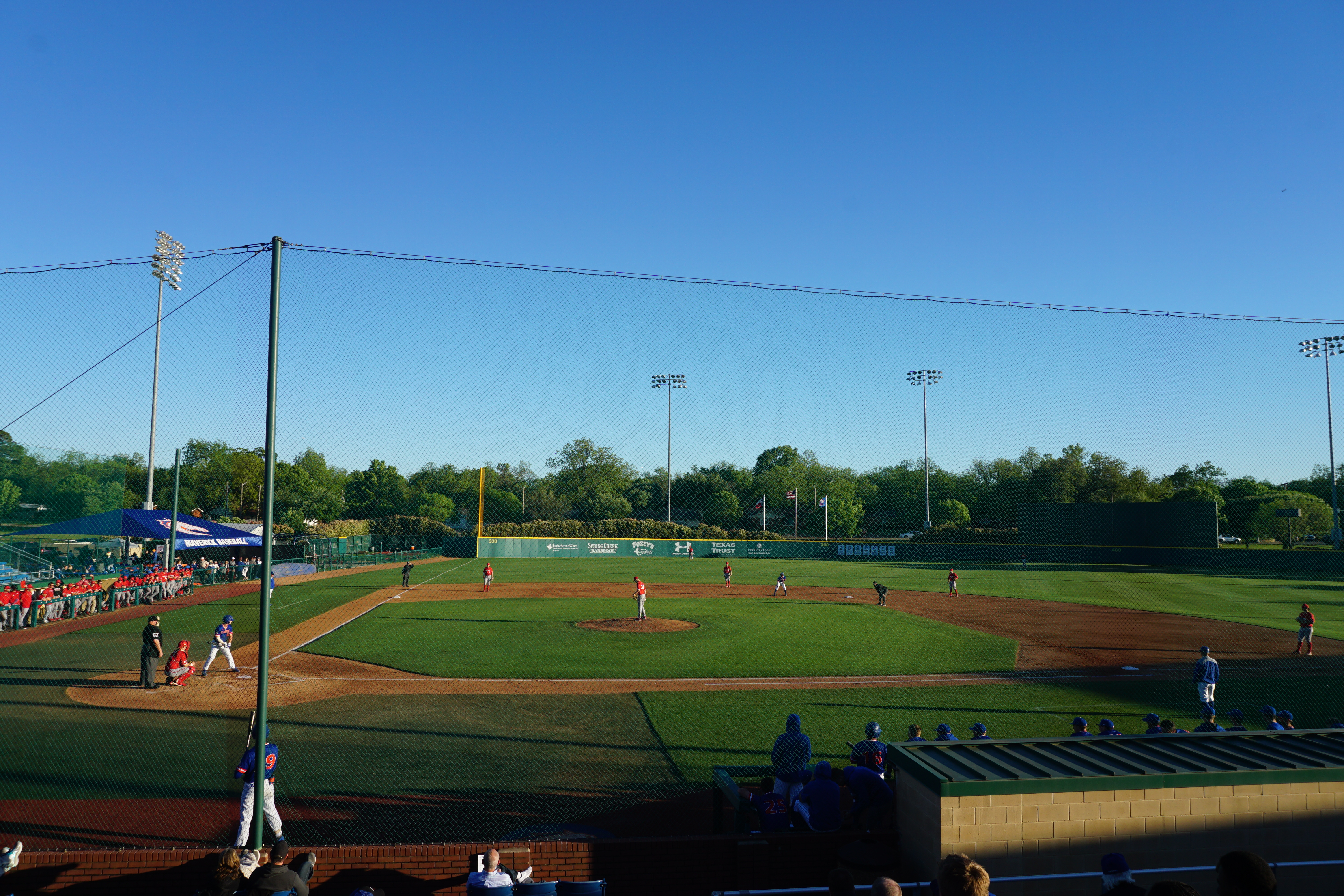 In-game action during the Louisiana Ragin' Cajuns vs. UT Arlington Mavericks baseball game at Clay Gould Ballpark in Arlington, Texas (United States). UT Arlington won 7–3.